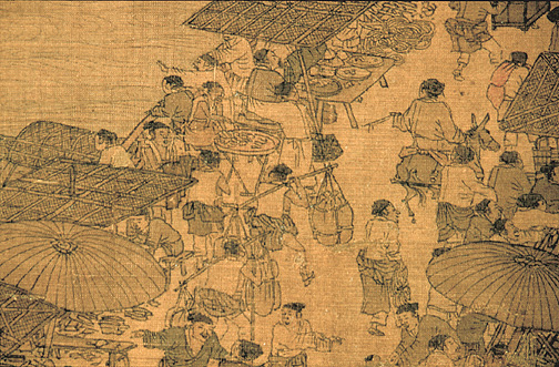 Close-up detail of the Chinese cityscape handscroll Along the River During Qingming Festival, ink and colors on silk, 25.5 × 525 cm.